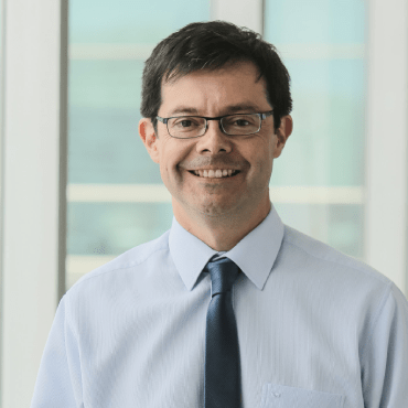 Photo of Esteban Carrasco as Undersecretary of Economy and Smaller Companies in 2020.